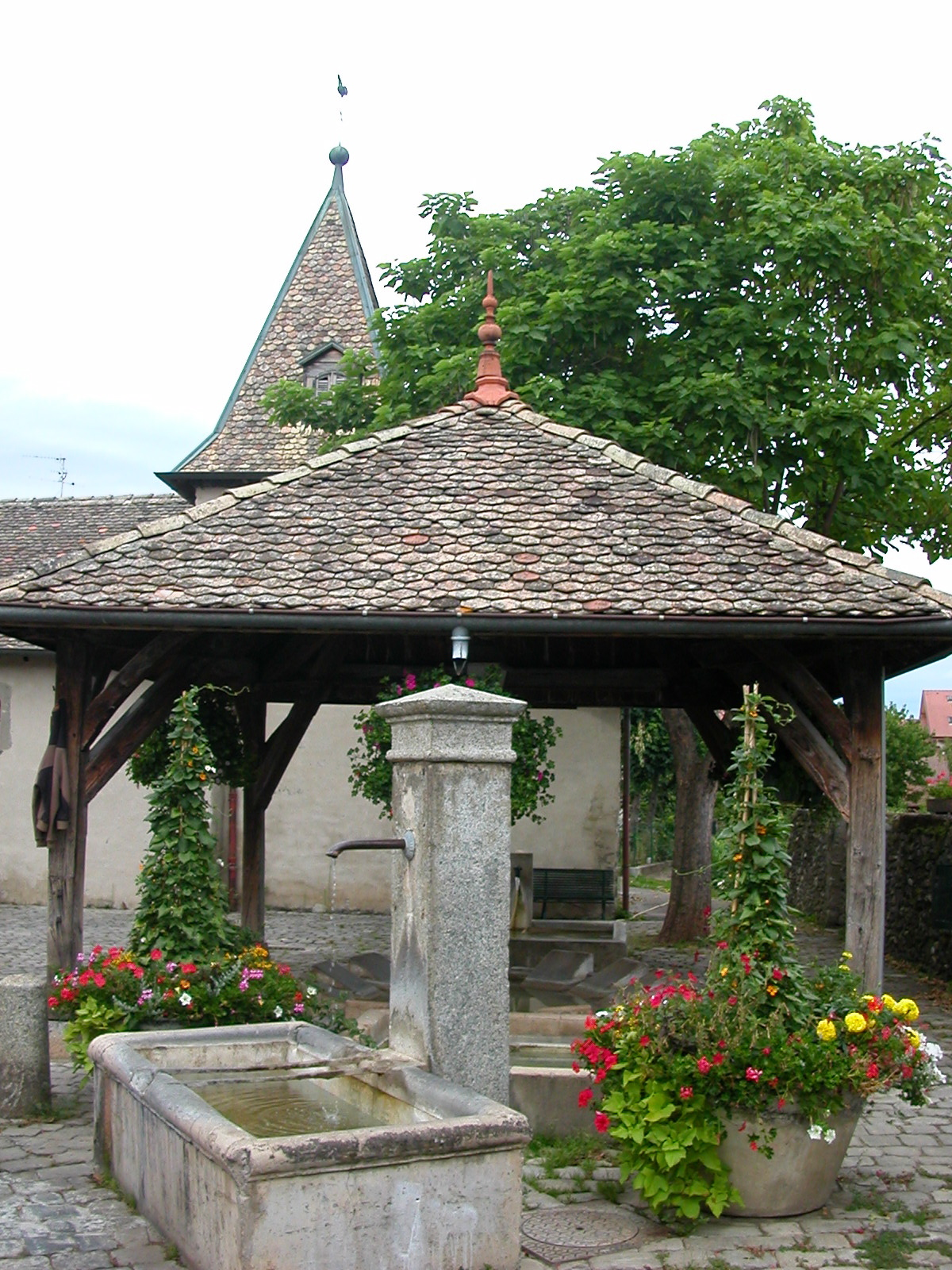 Central square, with abreuvoir, of Concise, a village in Thonon-les-Bains, Rhône-Alpes.